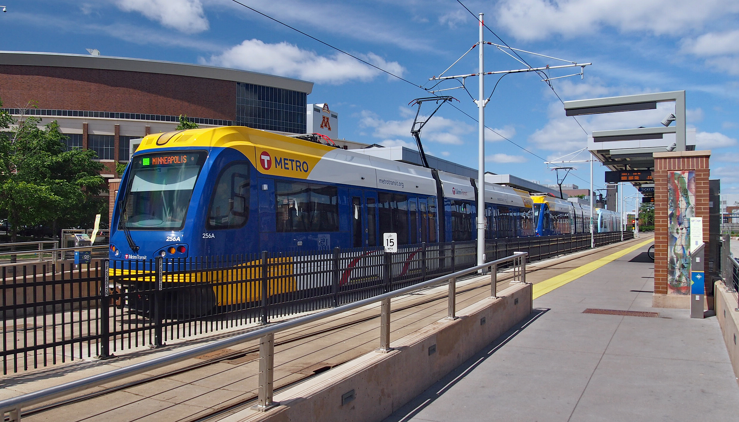 Stadium Village station with TCF Bank Stadium in the background, 2301 University Ave, Minneapolis, Minnesota, USA. Viewed from the south.